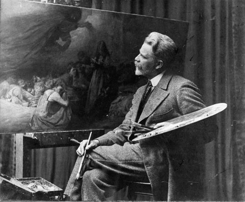 George Edmund Butler sitting beside one of his paintings